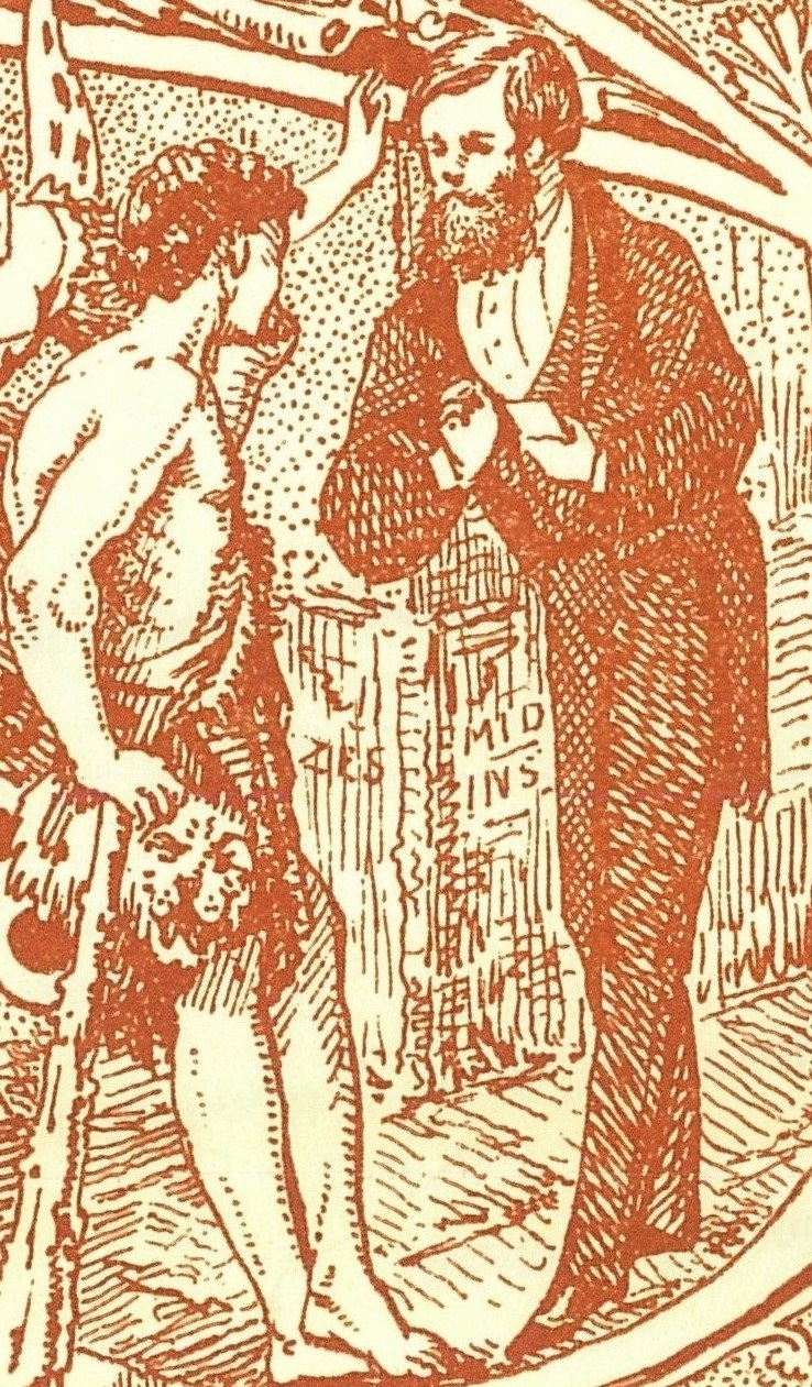 J. H. Chamberlain enrolling Hercules as a new subscriber to the Midland Institute (i.e. the Birmingham and Midland Institute). Detail from a leaflet, written and designed by Chamberlain (Hon. Secretary of the BMI, 1865-83), distributed at the 1866 Conversazione. This is from a facsimile of the original leaflet published in Rachel E. Waterhouse, 'The Birmingham and Midland Institute, 1854–1954' (Birmingham, 1954).